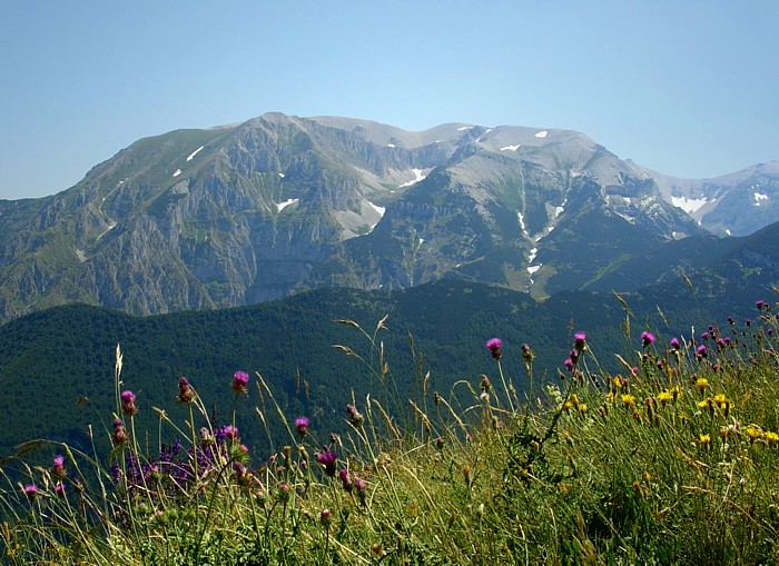 Majella seen from Blockhaus picture taken by user Idéfix July 2006